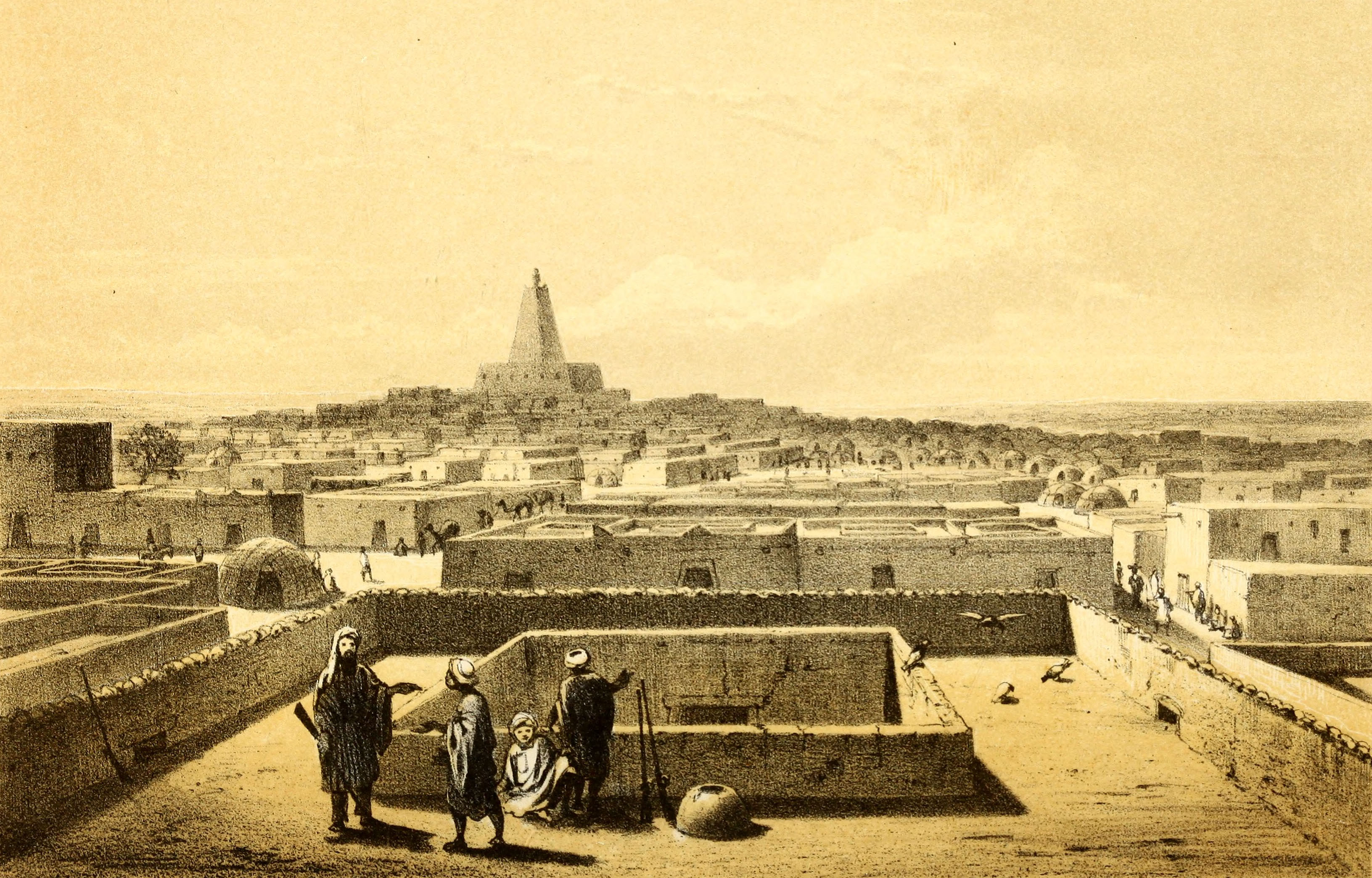 Timbuktu from the terrace of the traveller's house